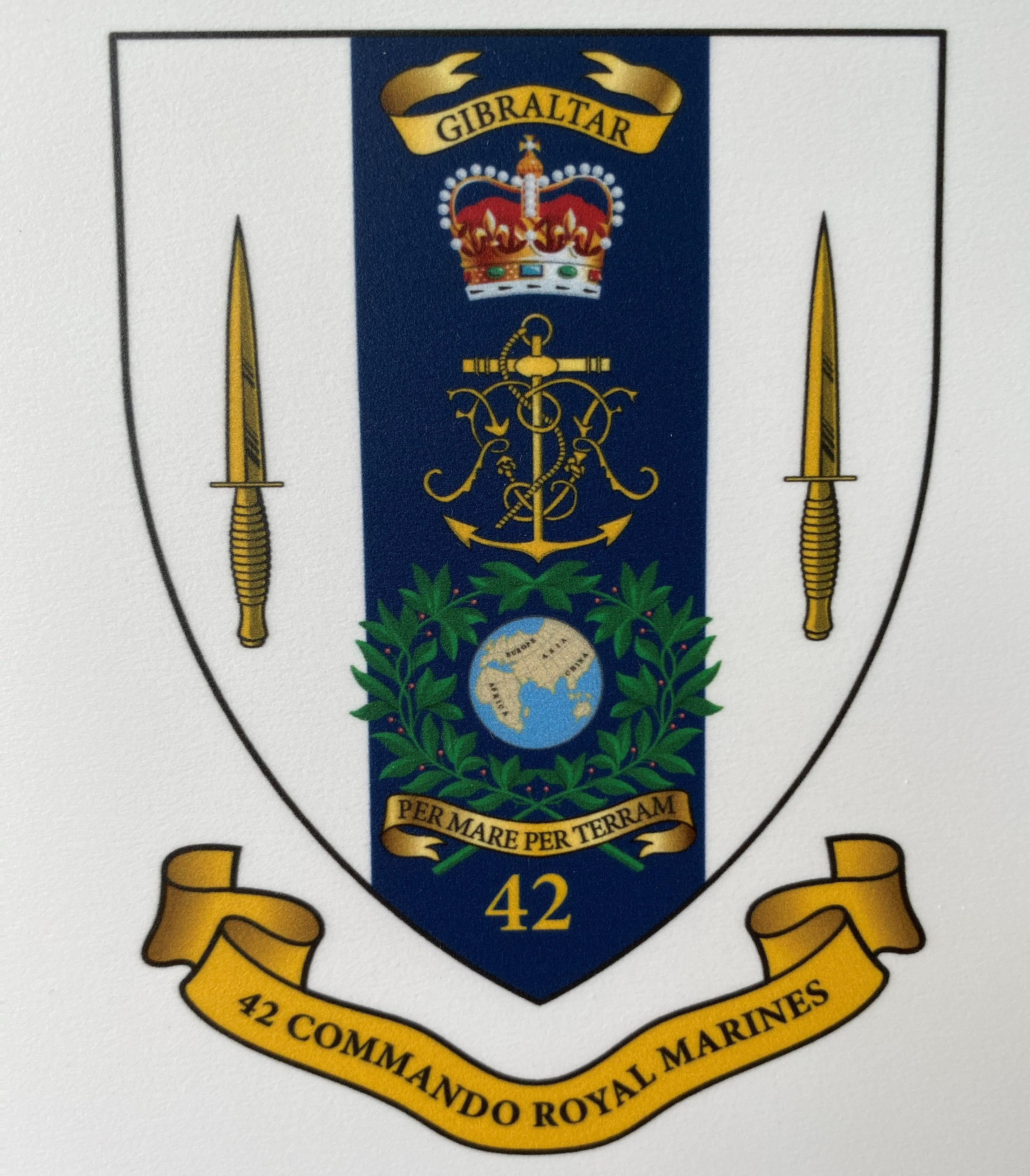 Unit crest